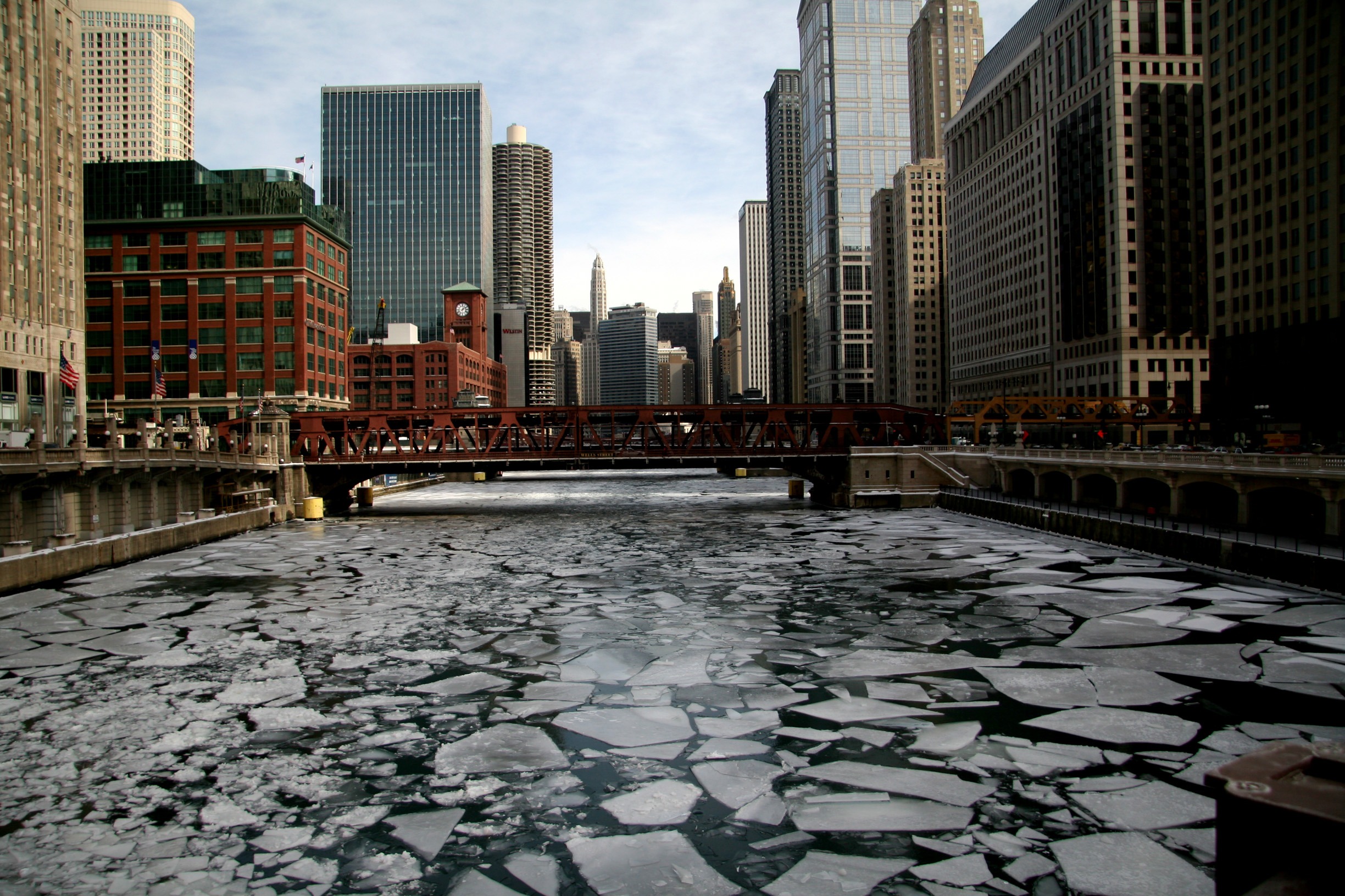 Ice on the Chicago river, Friday, Feb 16, 2007, with the Wells Street Bridge.